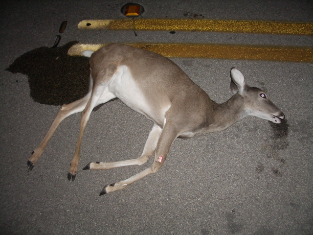 White-tailed deer hit by automobile in the Texas Hill Country.